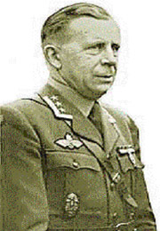 Hans Reidar Holtermann, soon after his arrival back in Norway in May 1945.